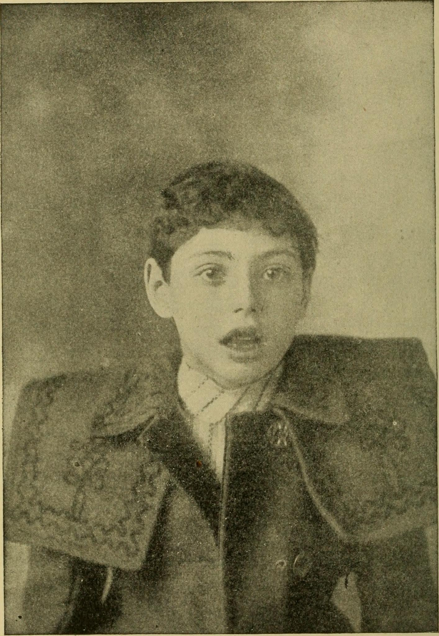 Title: The hygiene of the schoolroom Year: 1903[1] Authors: Barry, William F., M.D. Subjects: School hygiene Publisher: New York, Boston (etc.) Silver, Burdett and company Text Appearing Before Image: ten starting points of diphtheria and scarlet fever. In 1907, in New York city, of 7,608 pupils examined,2,159 suffered from enlarged tonsils and 1,248 with adenoid growths. A child with enlarged tonsils or adenoid growths speaks always as one does with a severe cold in the head. He says cobbod for common, and sig for sing. The photographs Nos. 23 and 24 show a child with the typical face of a mouth-breather from adenoids and the change in the entire facial appearance when the offend-ing growths have been removed. It would be valuable for every teacher to have a register kept containing data of each pupils eye and ear capacity. With this knowledge at hand, many who are considered stupid would be shown to be only unfortunate, inasmuch as the avenues to their brain are partly blockaded; they need additional aid instead of censure.Those whose hearing is defective should be given seats within easy range of the teachers voice, and should at all times be subjects for special consideration and regard. Text Appearing After Image: FIG. 23.